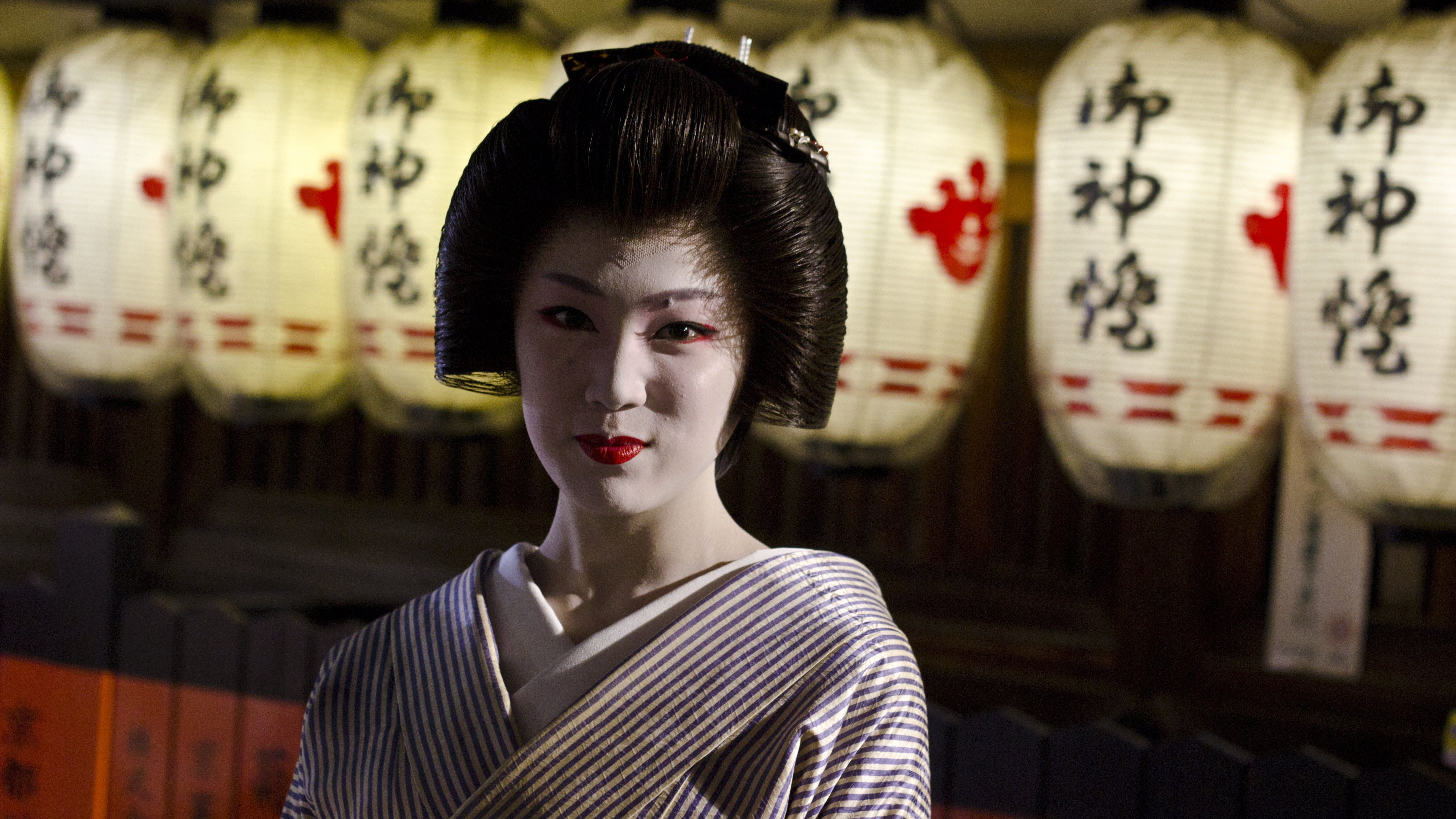 A Gion Higashi geisha Tsunemomo surrounded by paper lanterns. Photo by